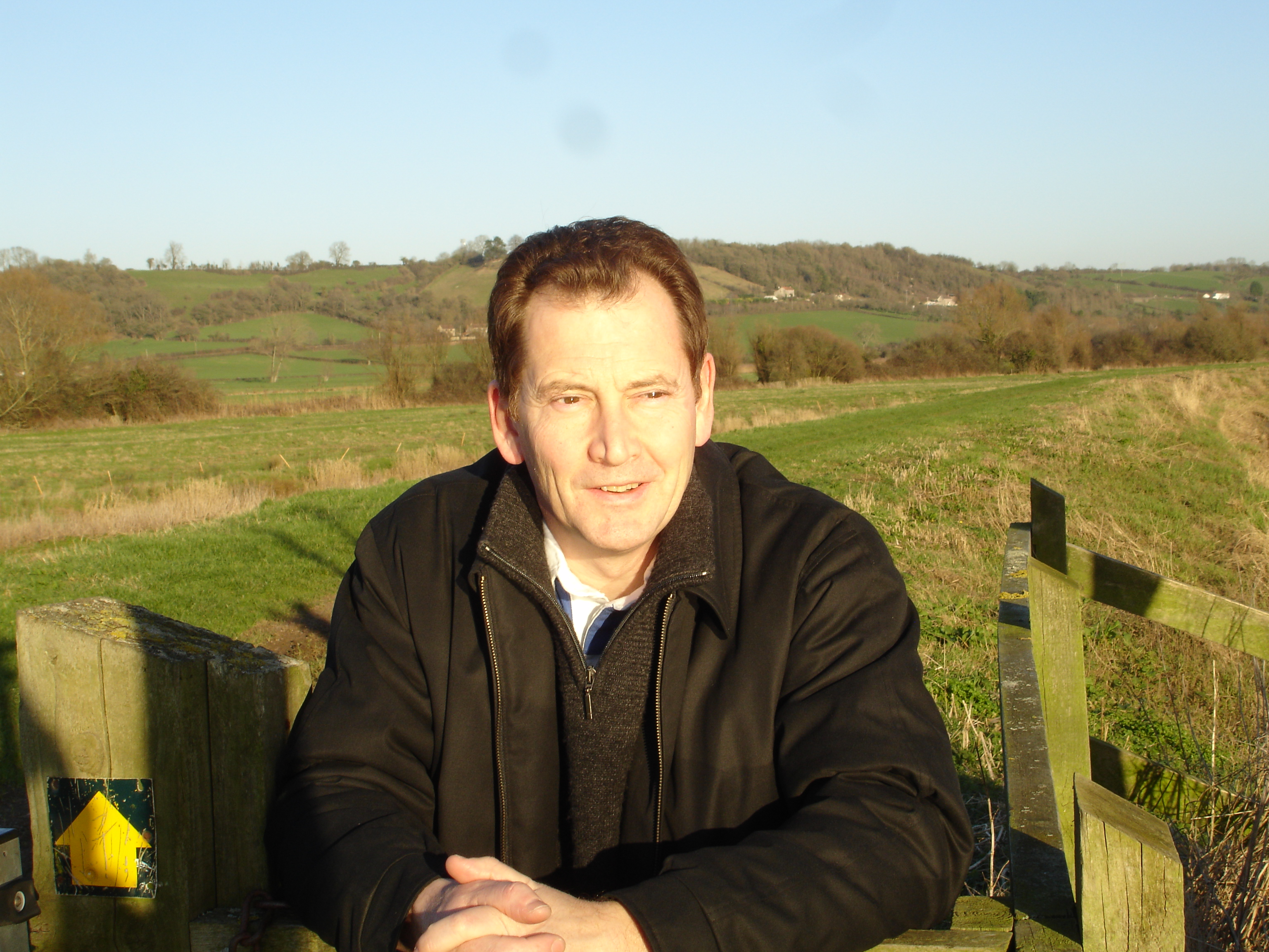 Graham Watson: Former leader of the Alliance of Liberals and Democrats for Europe is the Liberal Democrat MEP for the South West of England and the first Lib Dem to be elected to the European parliament.